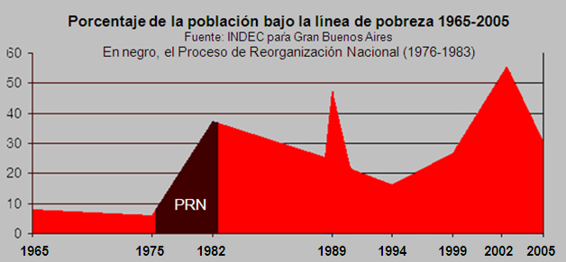 Poverty in Argentina 1965-2005. In black 1976-1983 dictatorship